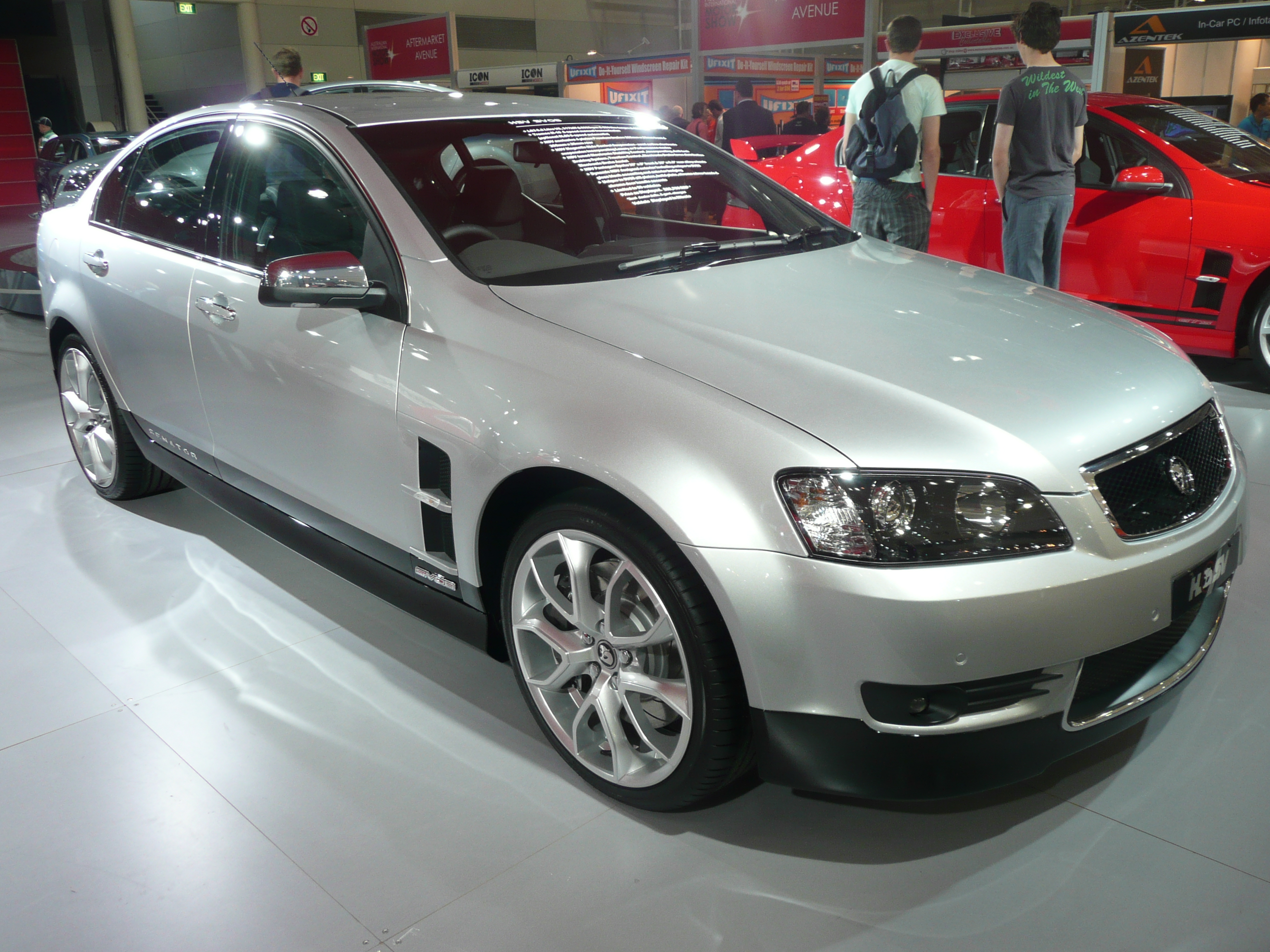 2008 HSV Senator (E Series MY09) Signature SV08 sedan. Photographed at the 2008 Australian International Motor Show, Sydney, New South Wales, Australia.